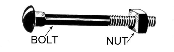 line art drawing